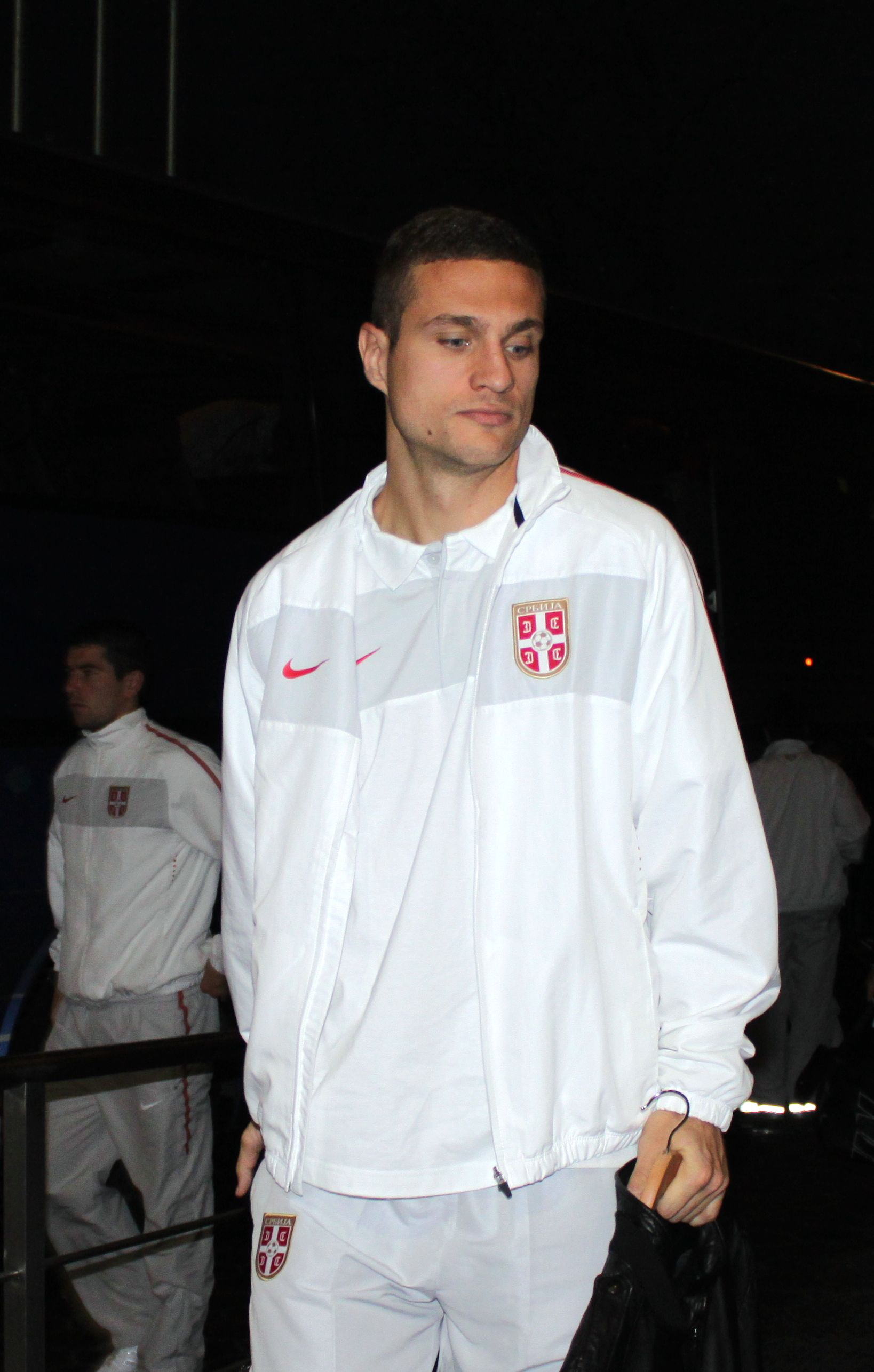 Nemanja Vidić - serbian football player